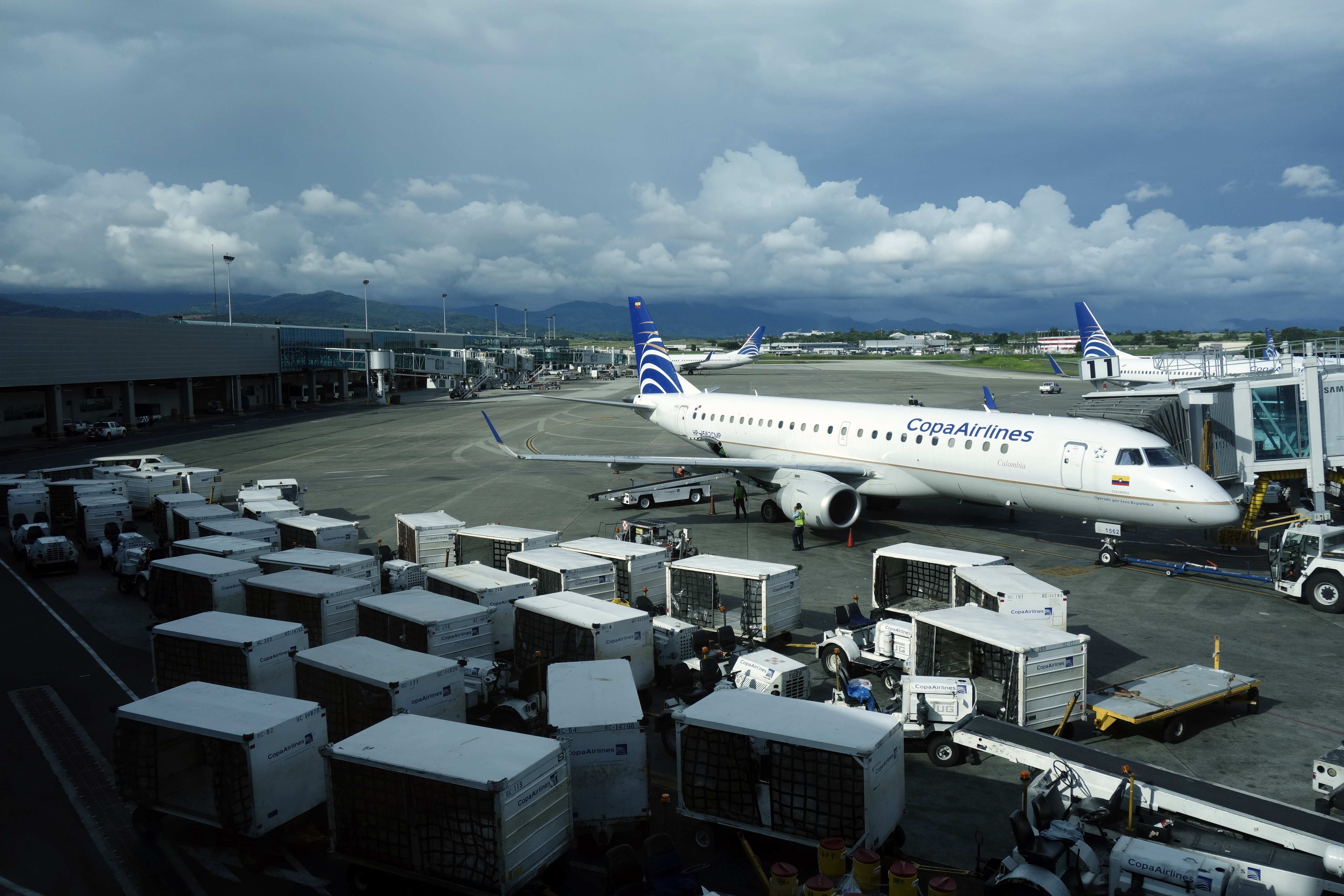 North pier of Panama's airport.